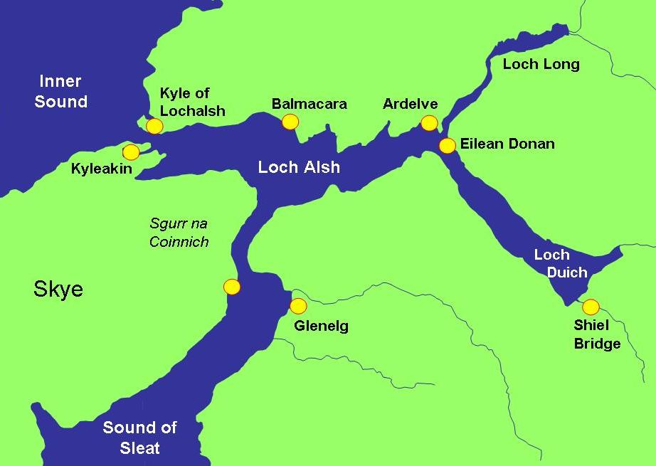 Sketch map of Loch Alsh, with Loch Duich, Loch Long and the Sound of Sleat. Localities include Kyle of Lochalsh, Kyleakin, Glenelg, Shiel Bridge, Eilean Donan, Ardelve, Balmacara.